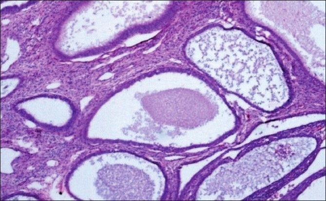 Histopathology of complex hyperplasia without atypia: Cystically dilated endometrial glands lined by a single layer of columnar epithelium (Hematoxylin and eosin stain, ×20)